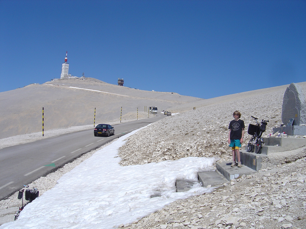 the youngest Bromptonaute of Mont Ventoux front of the stele Simpson